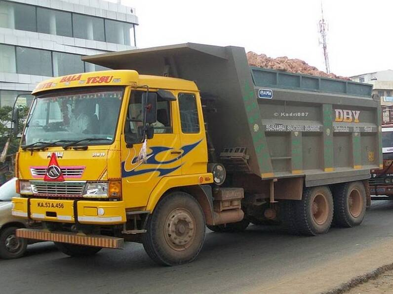 AMW Motors Trucks